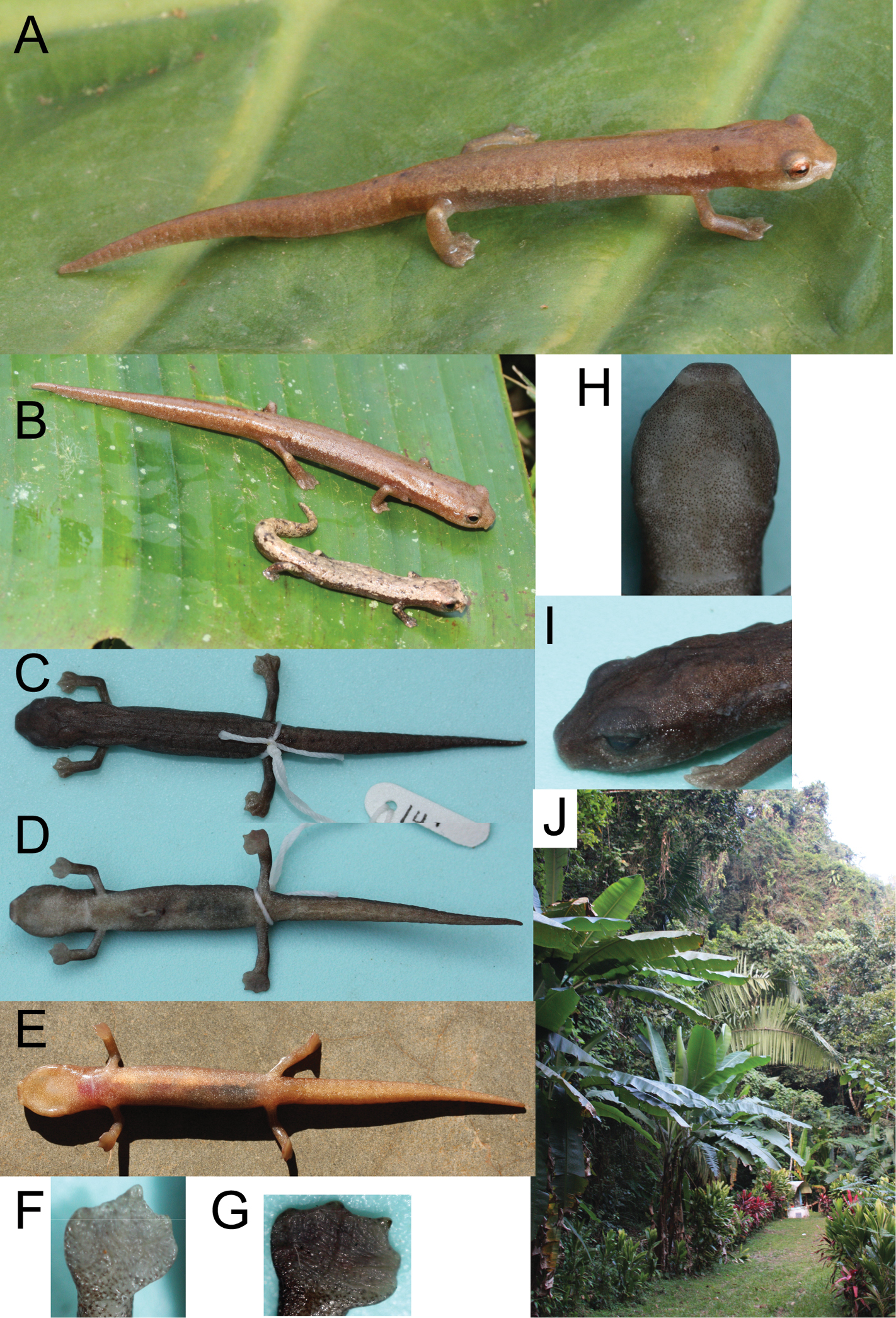 Photographs of the live and preserved Bolitoglossa chinanteca holotype. A Holotype of Bolitoglossa chinanteca B Holotype of Bolitoglossa chinanteca with a sympatric individual of Bolitoglossa rufescens C Dorsum and D venter of preserved holotype E Ventral view of holotype before preservation, showing color in life F Right hand, G right foot H gular region and I side view of head of preserved holotype. J Photograph of the type locality of Bolitoglossa chinanteca, including banana plants where the type series was collected. All photographs by S. M. Rovito.